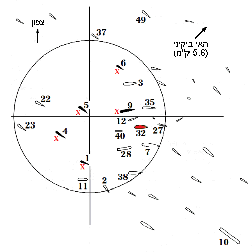 Crossroads_Able_Target_Ship_Map